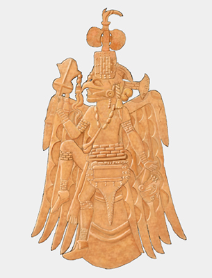 Rogan Plate 2 (A91113, Department of Anthropology, NMNH, Smithsonian), one of two Mississippian culture "birdman" repoussé copper plates found by John P. Rogan at the Etowah site in Alabama in 1883.)